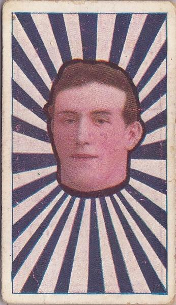 Cigarette card of Percy Scown from the 1911 Sniders & Abrahams series.